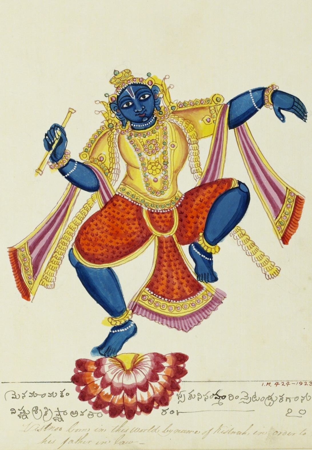 Krishna dancing on a lotus, c1825. Gouache on watermarked paper. Tiruchchirappalli. Tamil Nadu.